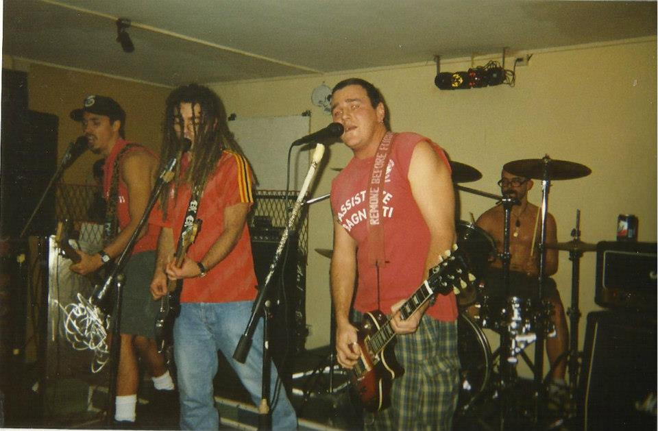 The Chromosomes in 1997